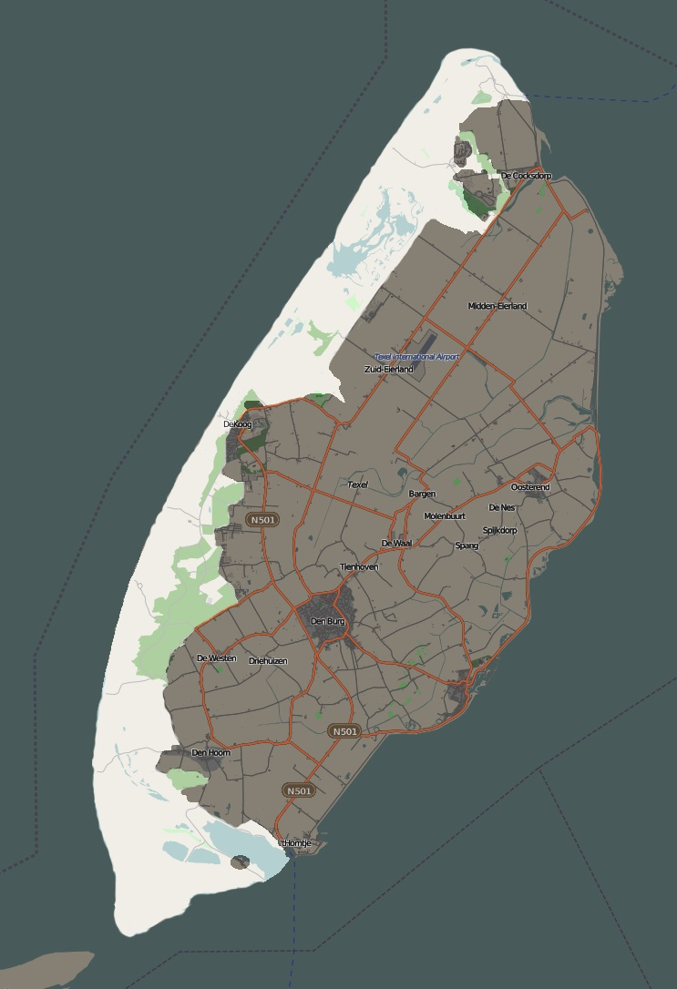 This map may be incomplete, and may contain errors. Don't rely solely on it for navigation.